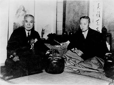 Reps. Kunimatsu Hamada (1868–1939) and Yukio Ozaki (1858–1954).